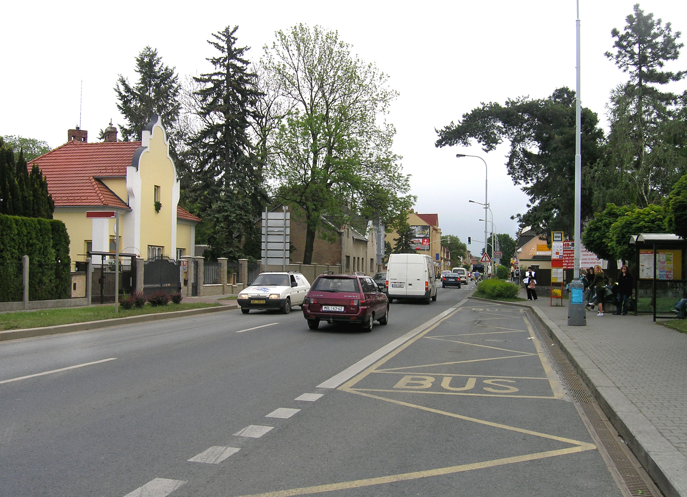 Přátelství street at Uhříněves, Prague